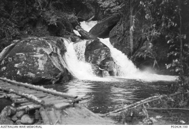 Eora Creek, Papua, 1942-11. The first crossing of Eora Creek on a section of the Kokoda Trail from Myola. A narrow footbridge made of logs (left) spans the creek, as water tumbles over rocks in a waterfall (centre).